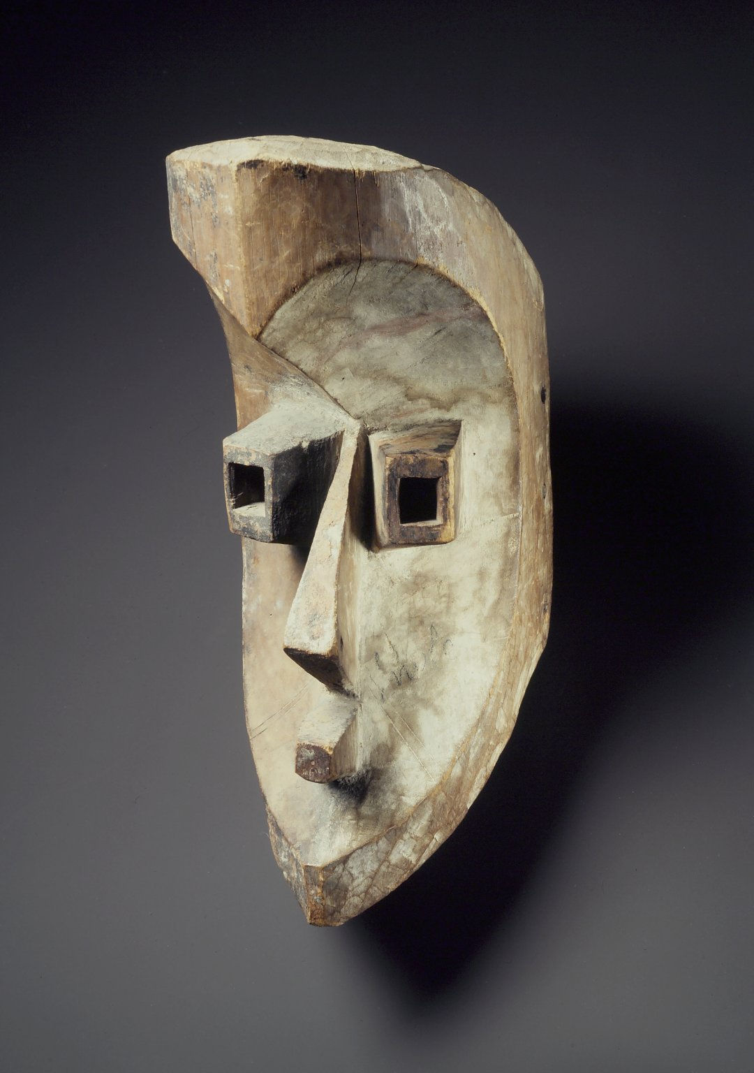 A wooden mask made up of geometric planes, revealing tool marks on the surface overall. The crescent-shaped face projects outward at the top and comes to a point. Below it, brows arch above the eyes and move downward to a sharp point at the center. A medial ridge moves from the top of the mask to the bridge of the nose. The mask's chin moves slightly upward to a point. Between the overhanging scalloped brows and upturned chin are carved angular features in high relief. Below the brows are two hollowed-out block-shaped eyes. A nose widens gradually as it moves from the bridge of its triangular form to its base. Near the base on the outside of each nostril is a small hole drilled towards the inside of the nose. Below the nose is a small solid block-shaped mouth. The overall surface of the mask has traces of black and red-orange pigment. The left side of the face, unlike the right, has been rubbed with white lime. At the back of the mask is a hollow rectangular opening for the wearer's head with two square openings for his eyes. Condition of mask is good with traces of pigment missing from the surface in general. The right and left sides of the forehead have small cracks; in the hollow back section of the mask is a crack through the wood. Through each side of the mask, near the rear, are three carefully drilled holes, one on top of each other.